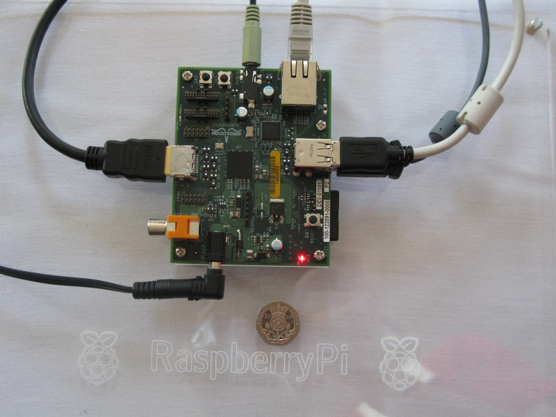 Raspberry Pi alpha board: one of the three present at the show (apparently just 40 currently exist worldwide)